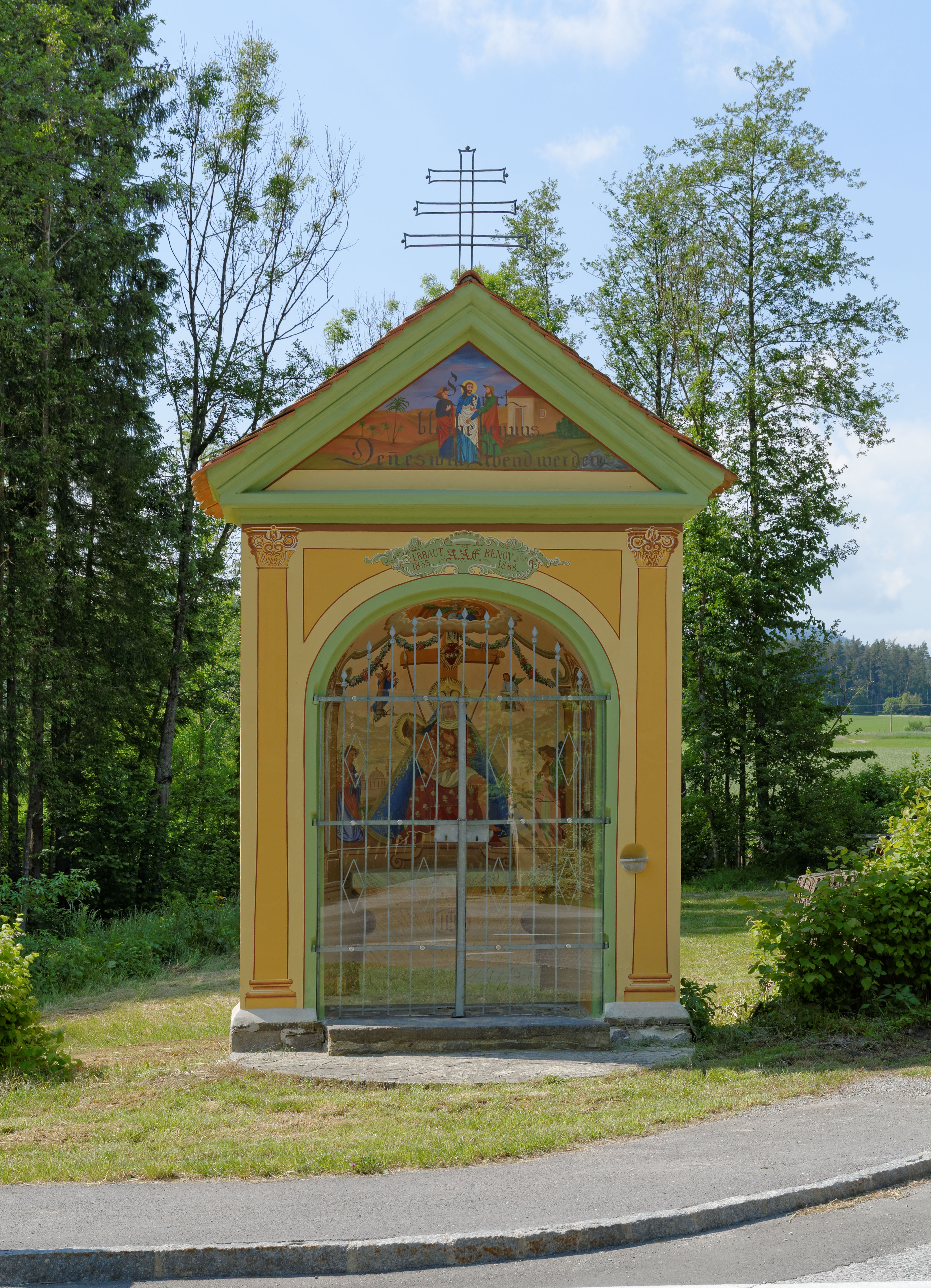 Wayside chapel near Göttelsberg, Municipality Mortantsch, Styria, Austria